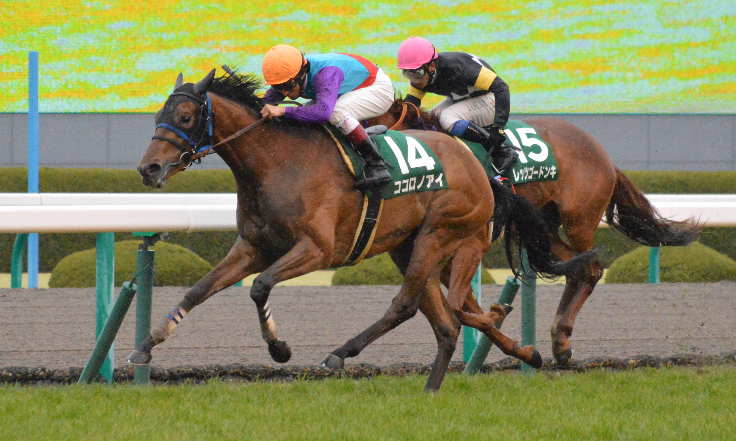 Japanese race horse Kokorono Ai at Hanshin racecourse.